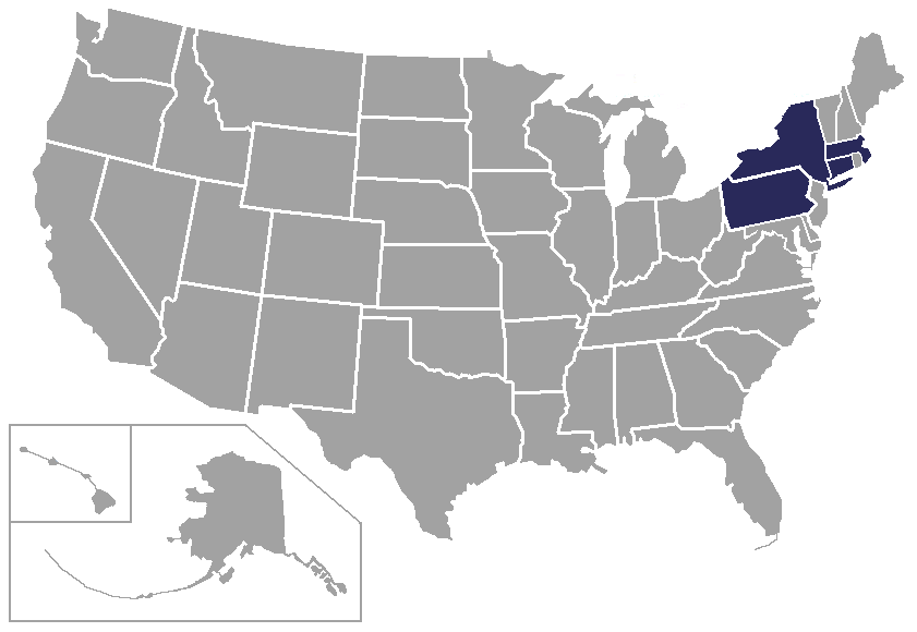 Map of states with Northeast Conference (football) schools; contains fair-use logo